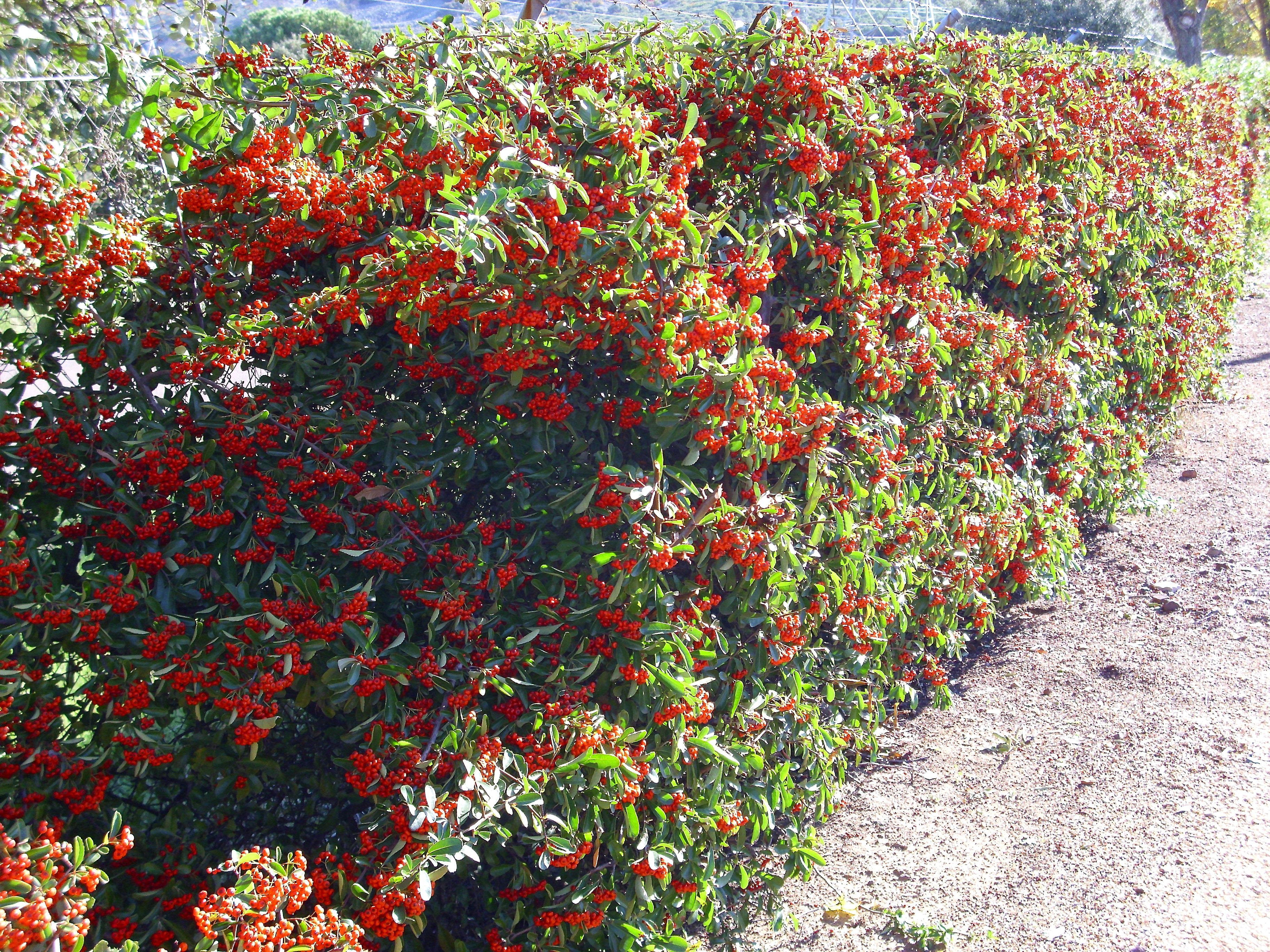 Pyracantha coccinea wall, Dehesa Boyal de Puertollano, Spain